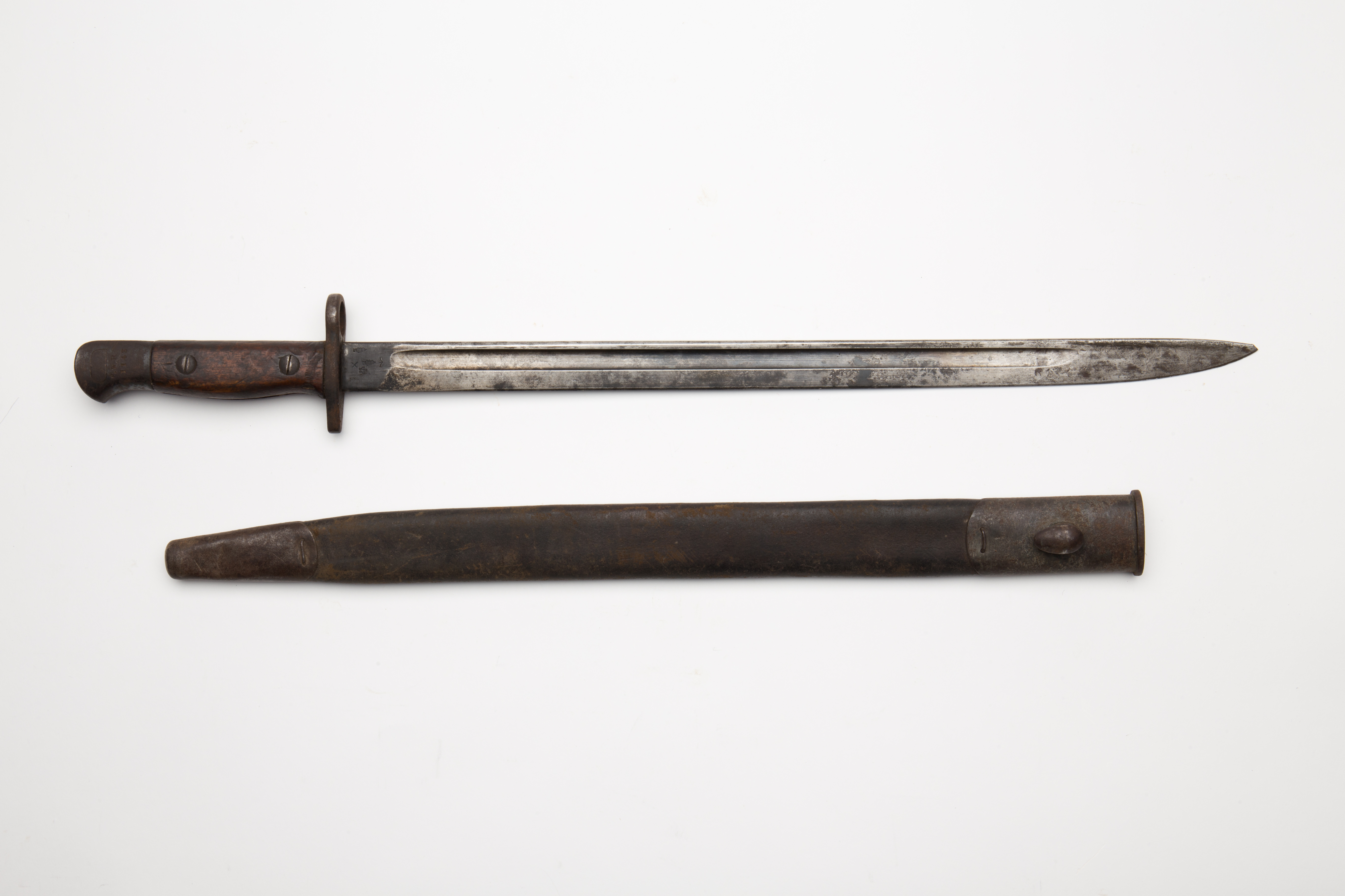 British Pattern 1907 bayonet for SMLE No 1 (with leather scabbard) (WW1 period) maker- RSAF, Enfield, December 1913 (.) note- hooked quillon has been removed markings- serial number- 1143; George V reign marks- crown - GR - 1907 - 12 '13 - EFD; broad arrow; view marks- (crown) - 36 - E; other marks- EF - 36; 6 W.W. museum number 9 painted on